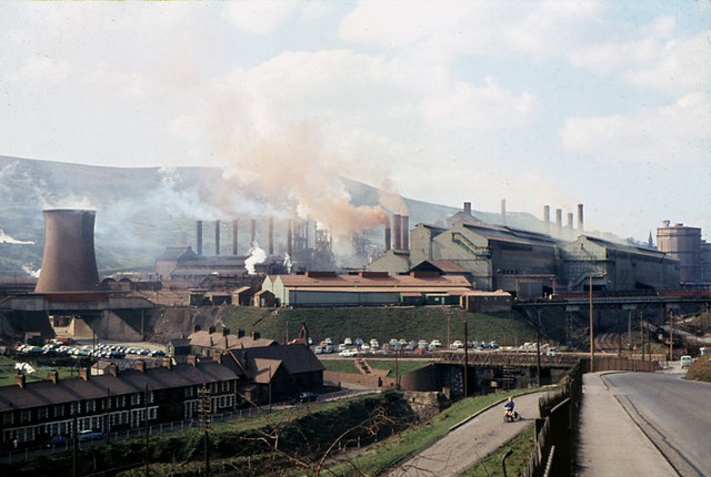 Ebbw Vale Steel Works in 1969. Lots of smoke.